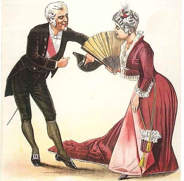 A poster for The Sorcerer revival.